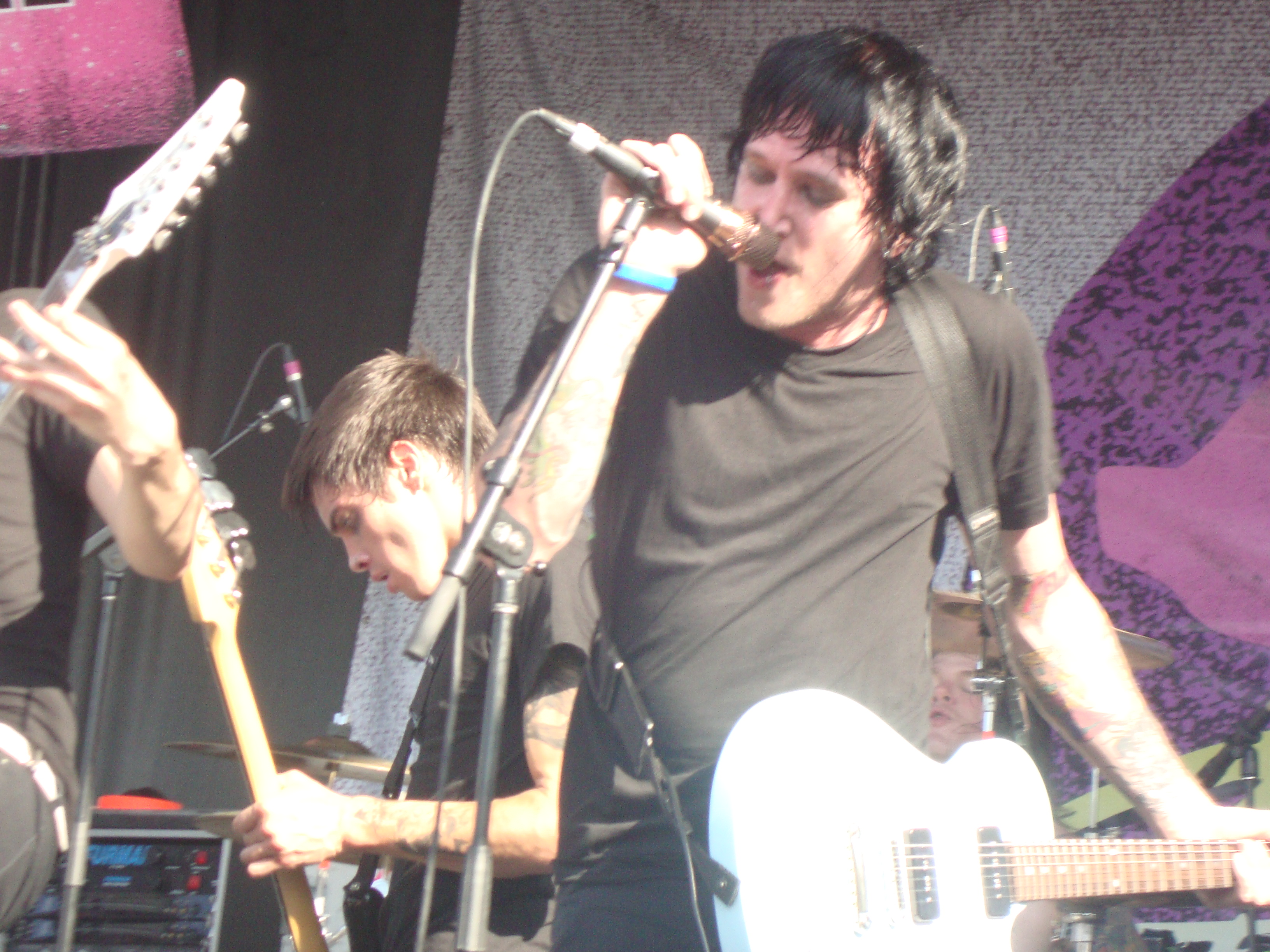 this picture was taken by me when Alesana played at warped tour 2010 in Carson